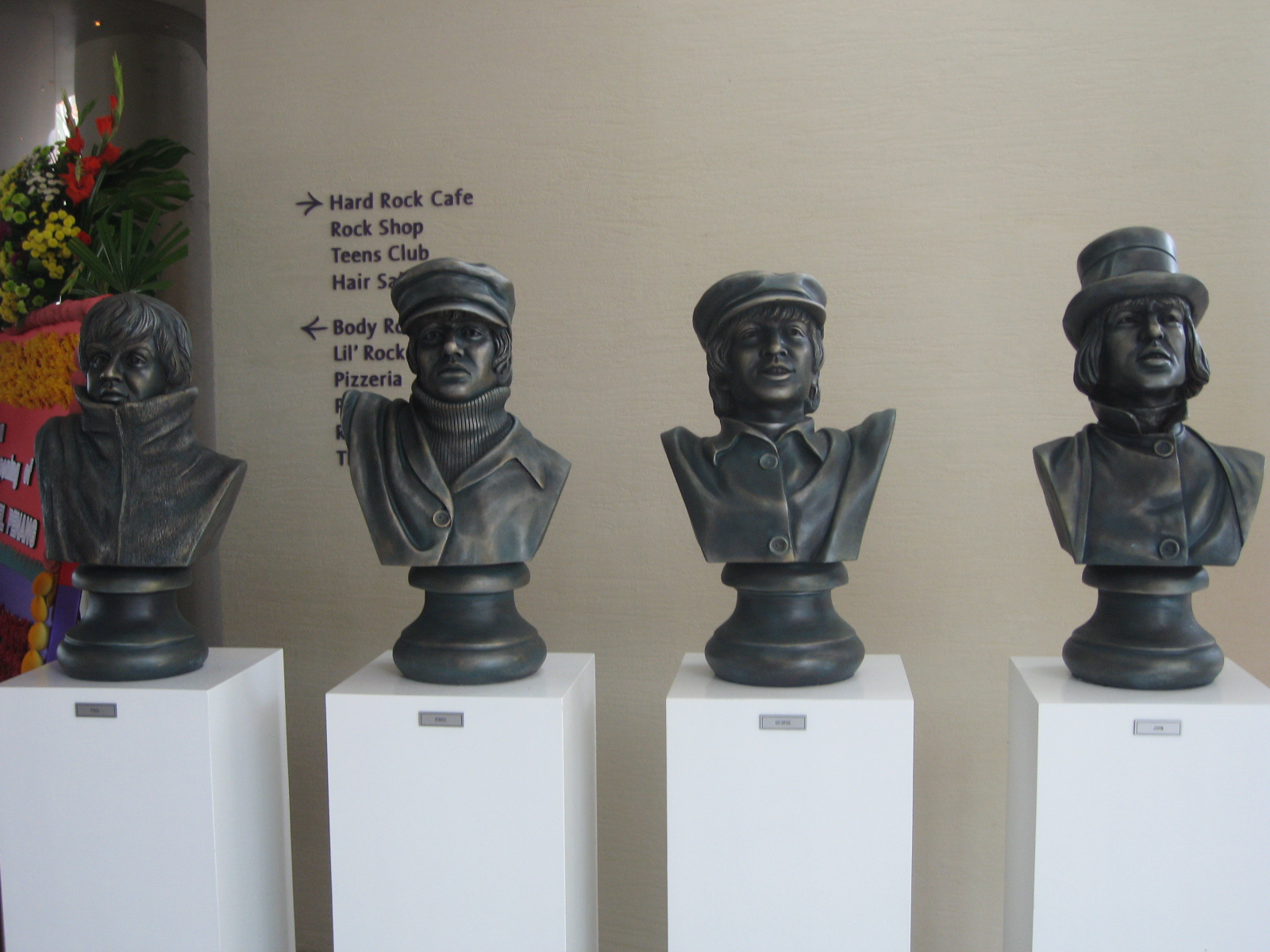 The Beatles busts, Hard Rock Hotel, Penang